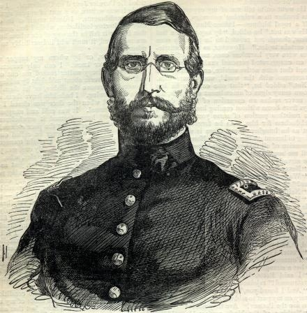 Lieutenant Adam Jacoby Slemmer, United States Army.